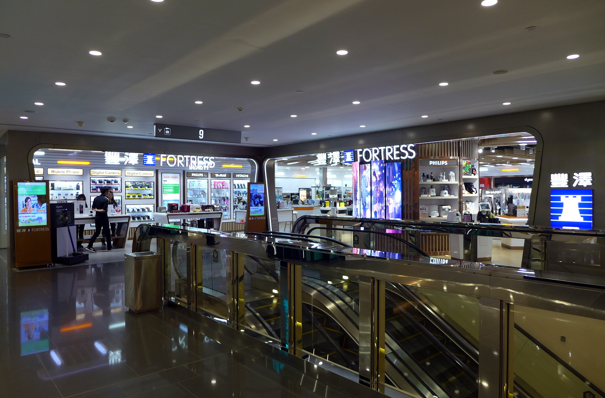 Fortess concept store in Times Square